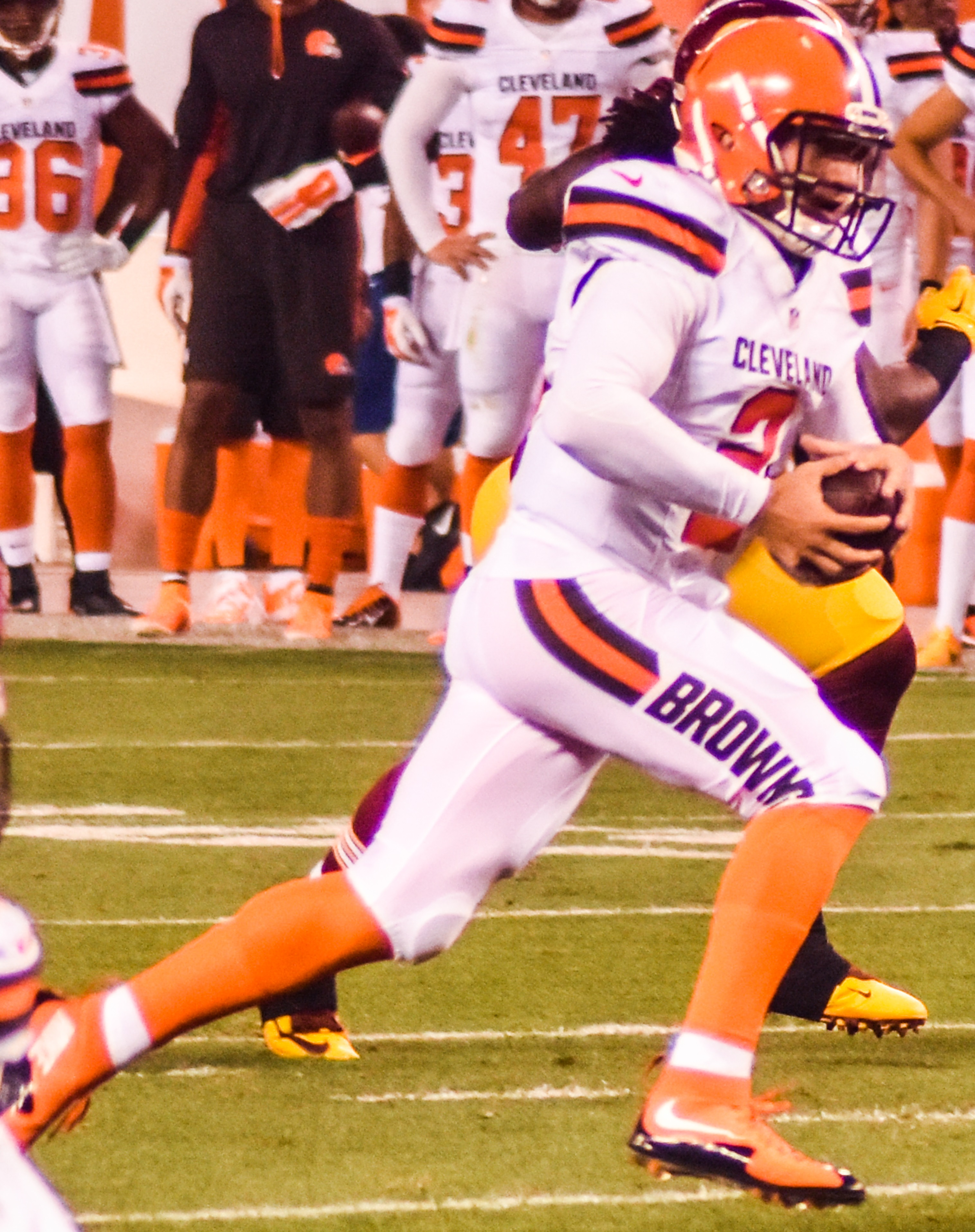 Browns vs Redskins